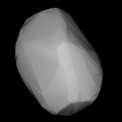 3D convex shape model of 11429 Demodokus, computed using light curve inversion techniques. J. Hanuš, J. Ďurech, M. Brož, B. D. Warner (June 2011). "A study of asteroid pole-latitude distribution based on an extended set of shape models derived by the lightcurve inversion method". Astronomy and Astrophysics 530: A134. ISSN 0004-6361. arXiv